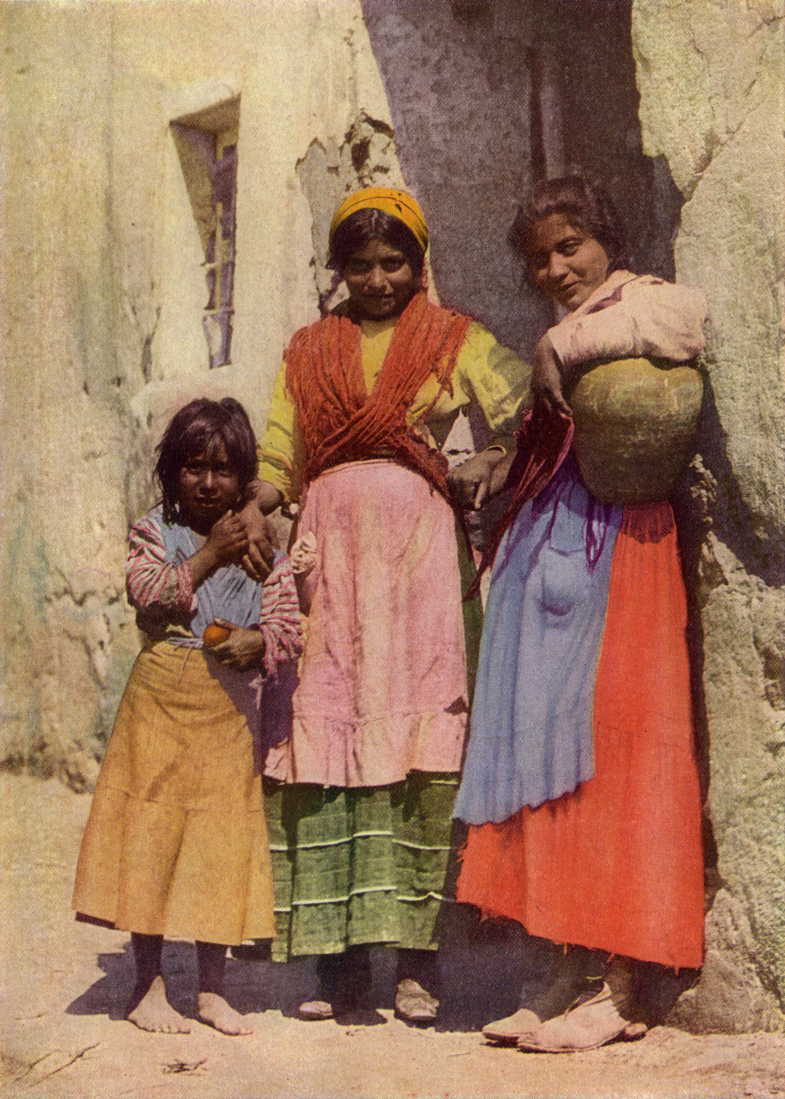 SPANISH GYPSY GIRLS. Picturesque in their rags, the girls and women "tell fortunes," and to those who refuse to have their fortune told is flung this quaint curse: "May you be made to carry the mail and have sore feet."